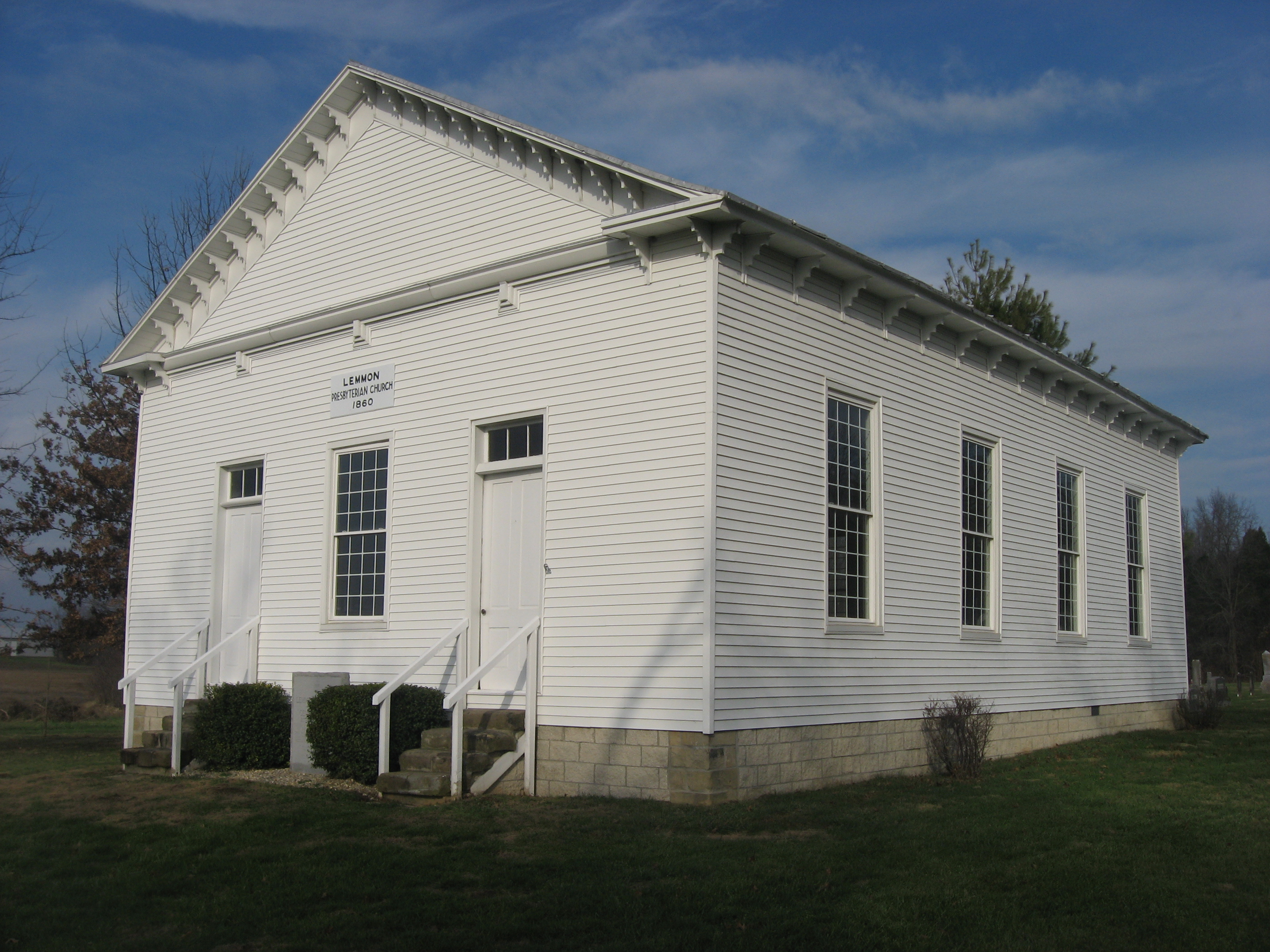 Front and eastern side of the former Lemmon Presbyterian Church, located along Portersville Road west of Portersville in Boone Township, Dubois County, Indiana, United States. Built in 1860, the church and its cemetery are listed on the National Register of Historic Places.